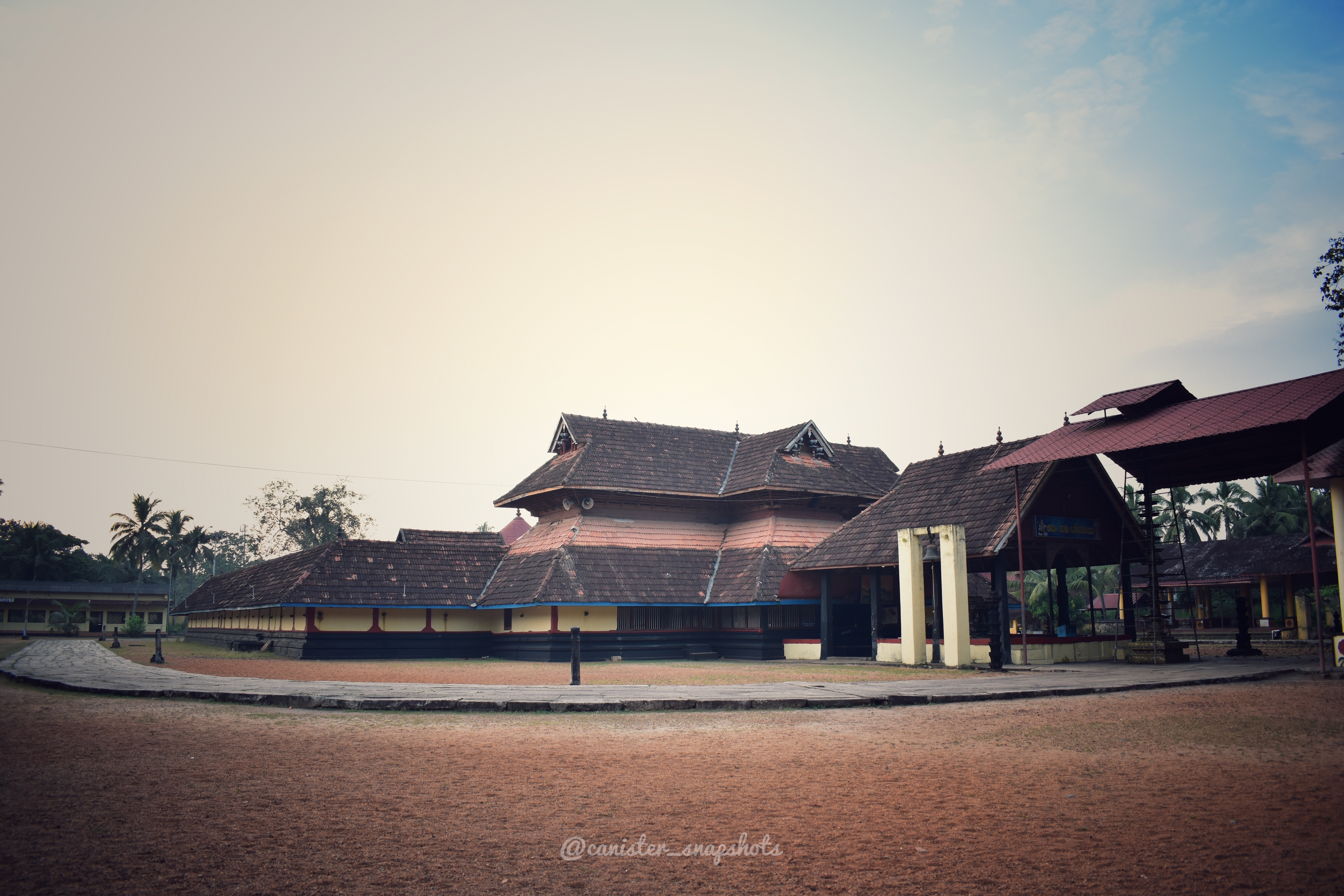 Thrikkuratty Mahadeva Seva Samithi